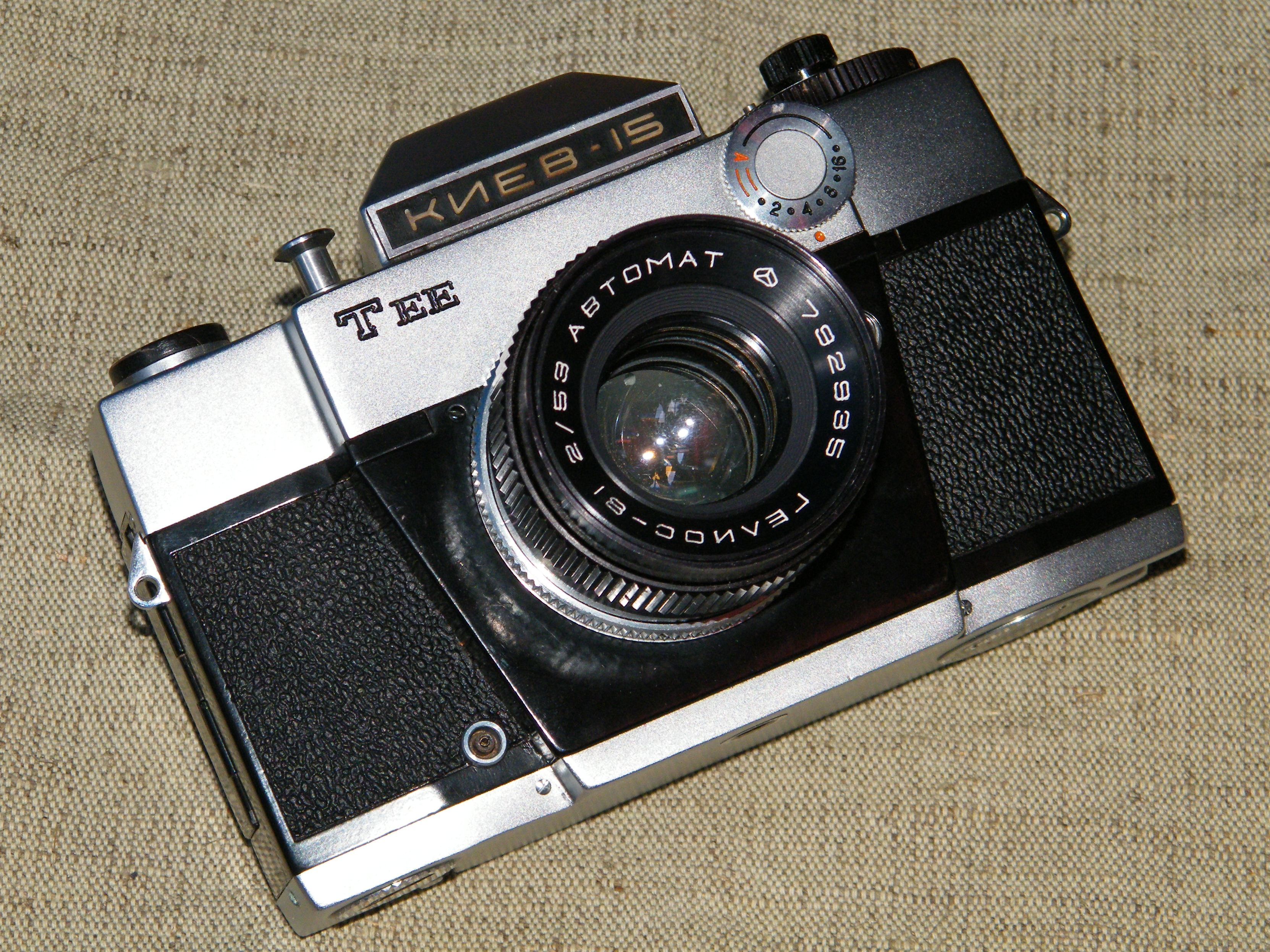 Kiev 15